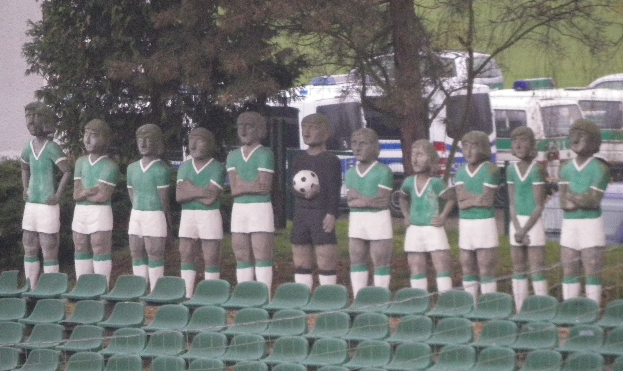 Life-size puppets of Chemie Leipzig's team, symbolizing the surprising GDR champions of 1964